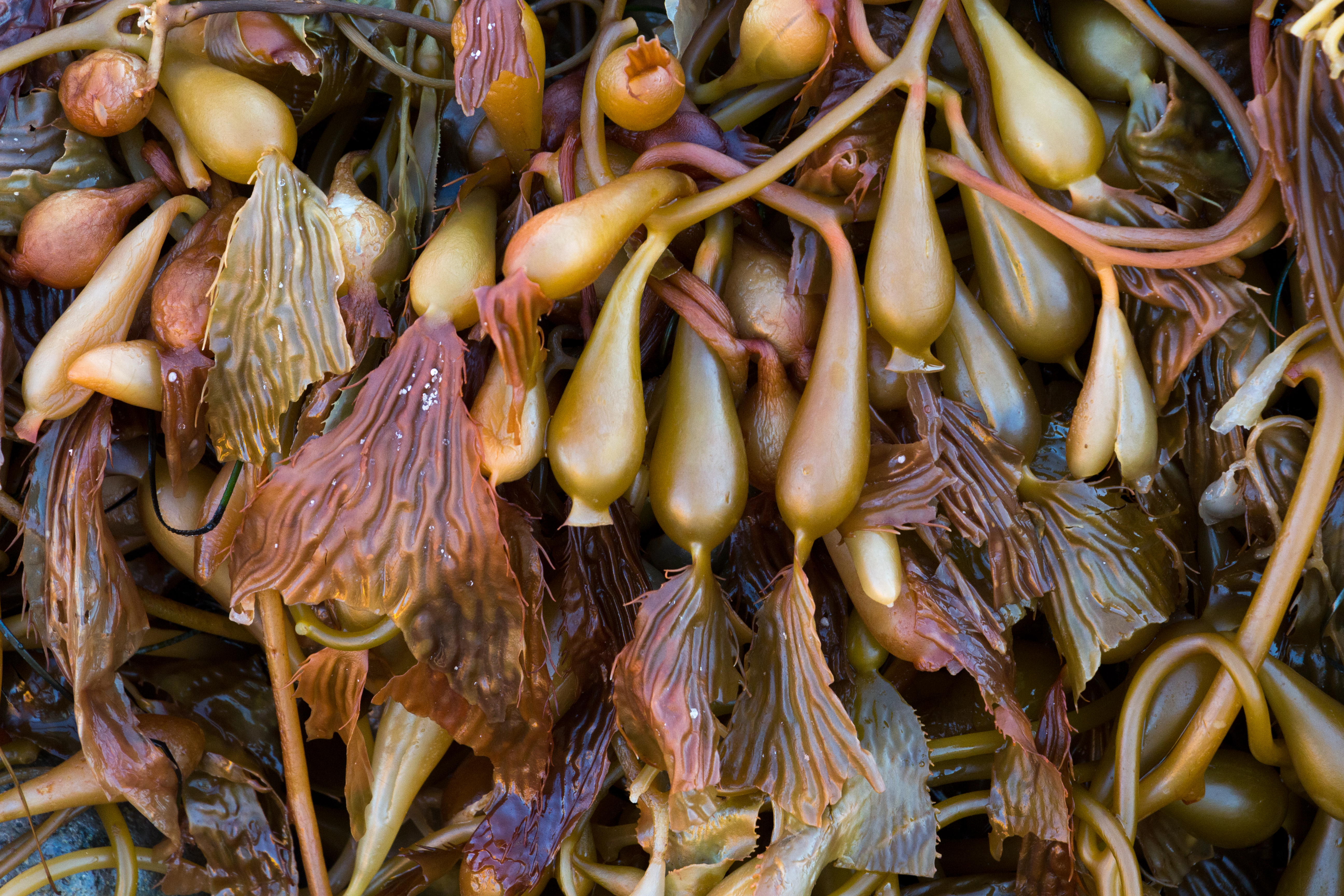 Seaweed in Ensenada, Baja California.